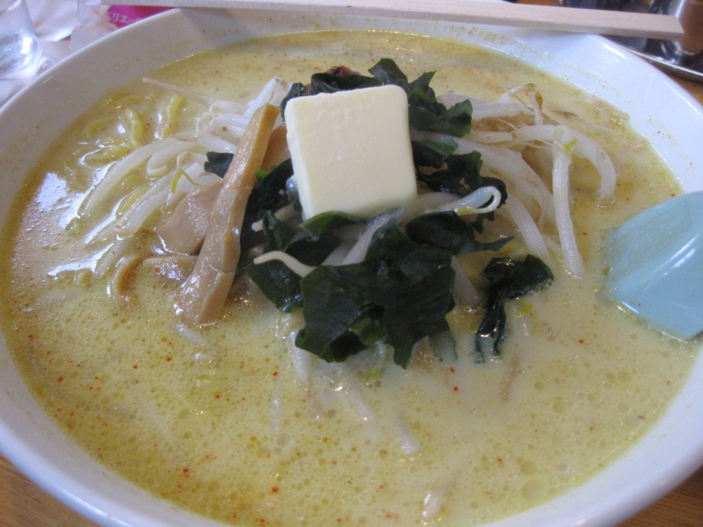 ChineseNoodles-with-Miso,CurryPowder-and-Milk-Soup,in-SapporoKan,Aomori,Japan,May-2011